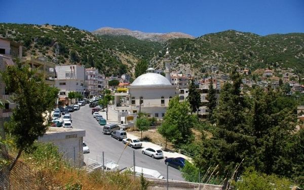 qesab